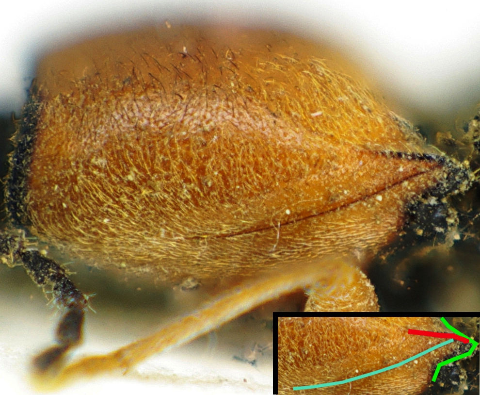 Cardiophorus graminatus pronotum from side, (head left) smaller copy right down partly coloured green:hind edge red:keel blue:side border